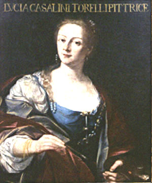 Self-portrait by Lucia Casalini Torelli